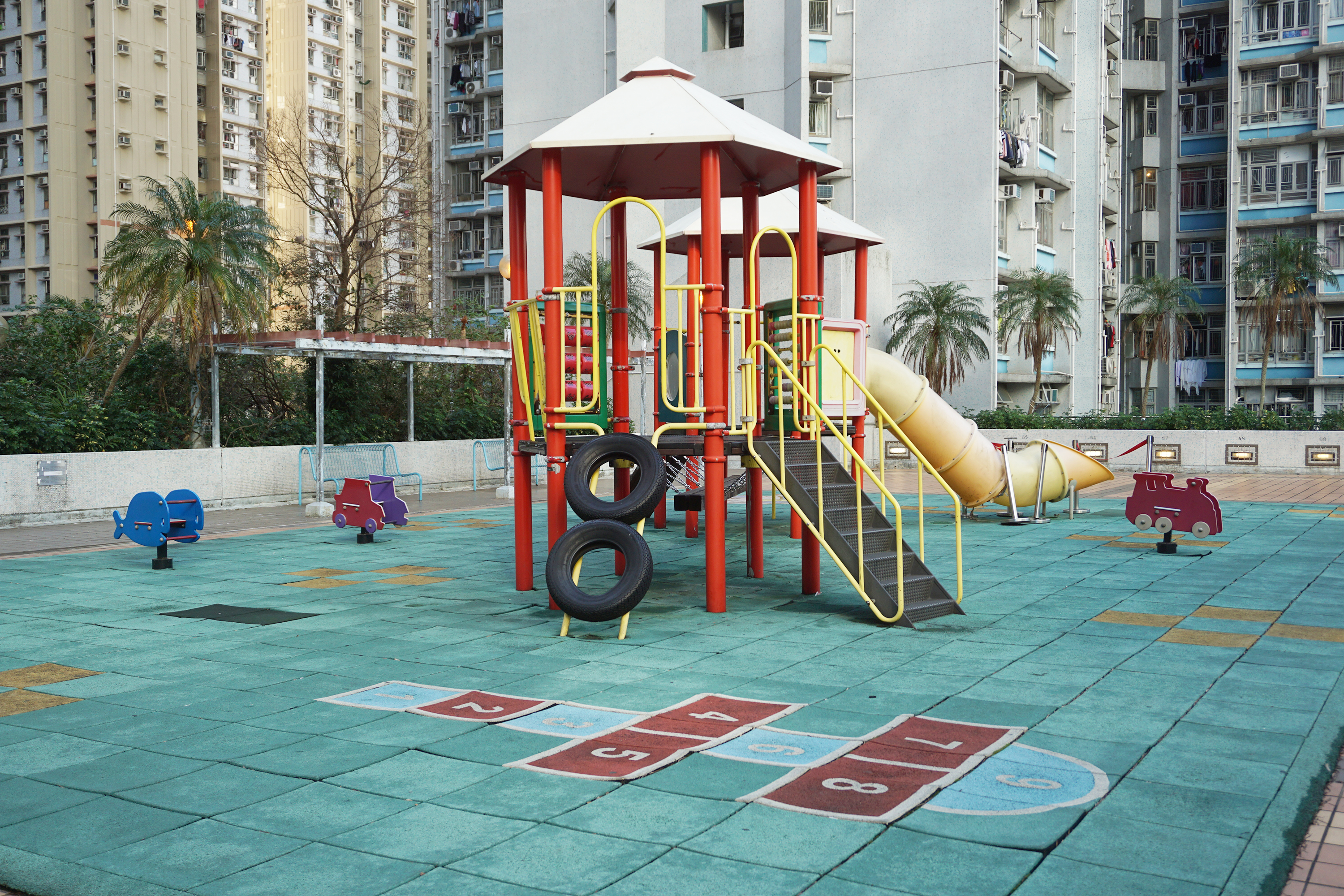 Tsz Man Estate in Tsz Wan Shan, Hong Kong.